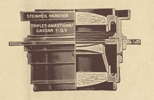 The Cassar is a Cooke Triplet-type photographic lens by German optics manufacturer C.A. Steinheil & Soehne, Muenchen.